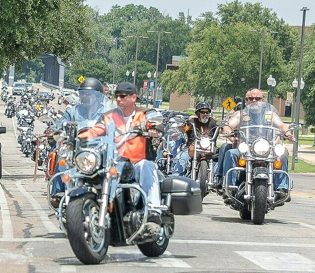 Cropped version of File:Waco Biker Rally10.jpg by Joseph Tye. Original photo by Joseph Tye.